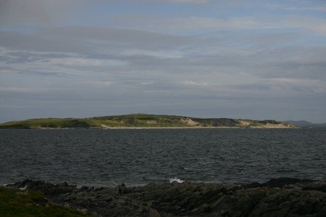 Island of Killegray (Ceileagraigh) in the Sound of Harris, near Ensay This lonely house sits on the coastal track overlooking Lòn Bhearnuis. Isle of Ulva, Inner Hebrides.